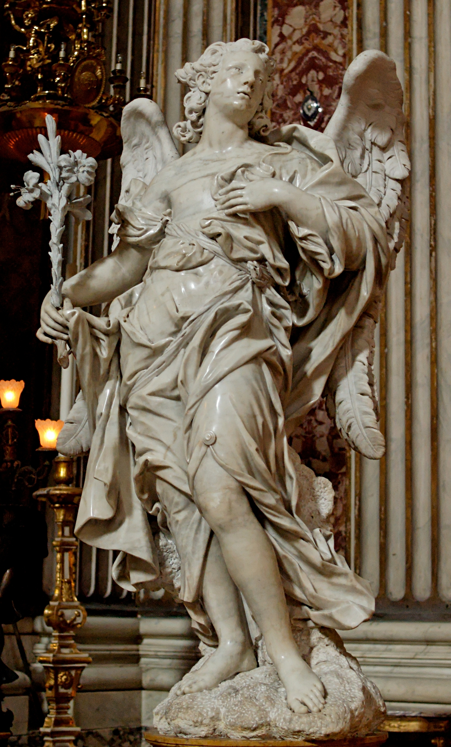 Statue of an angel from the altar of St Aloysius Gonzaga, Sant'Ignazio, Rome, Italy